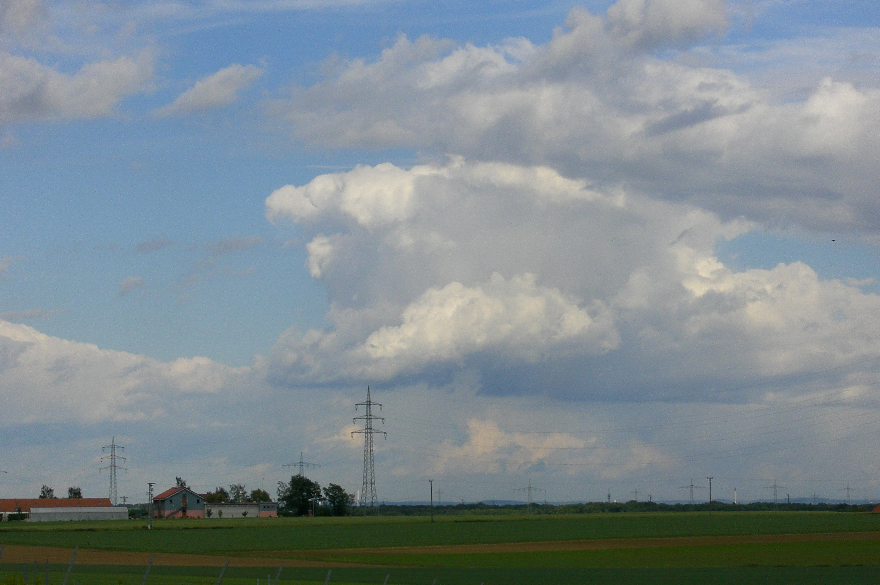 Cumulus humilis in front of a cumulus congestus ove a field in Southern Palatinat, Germany